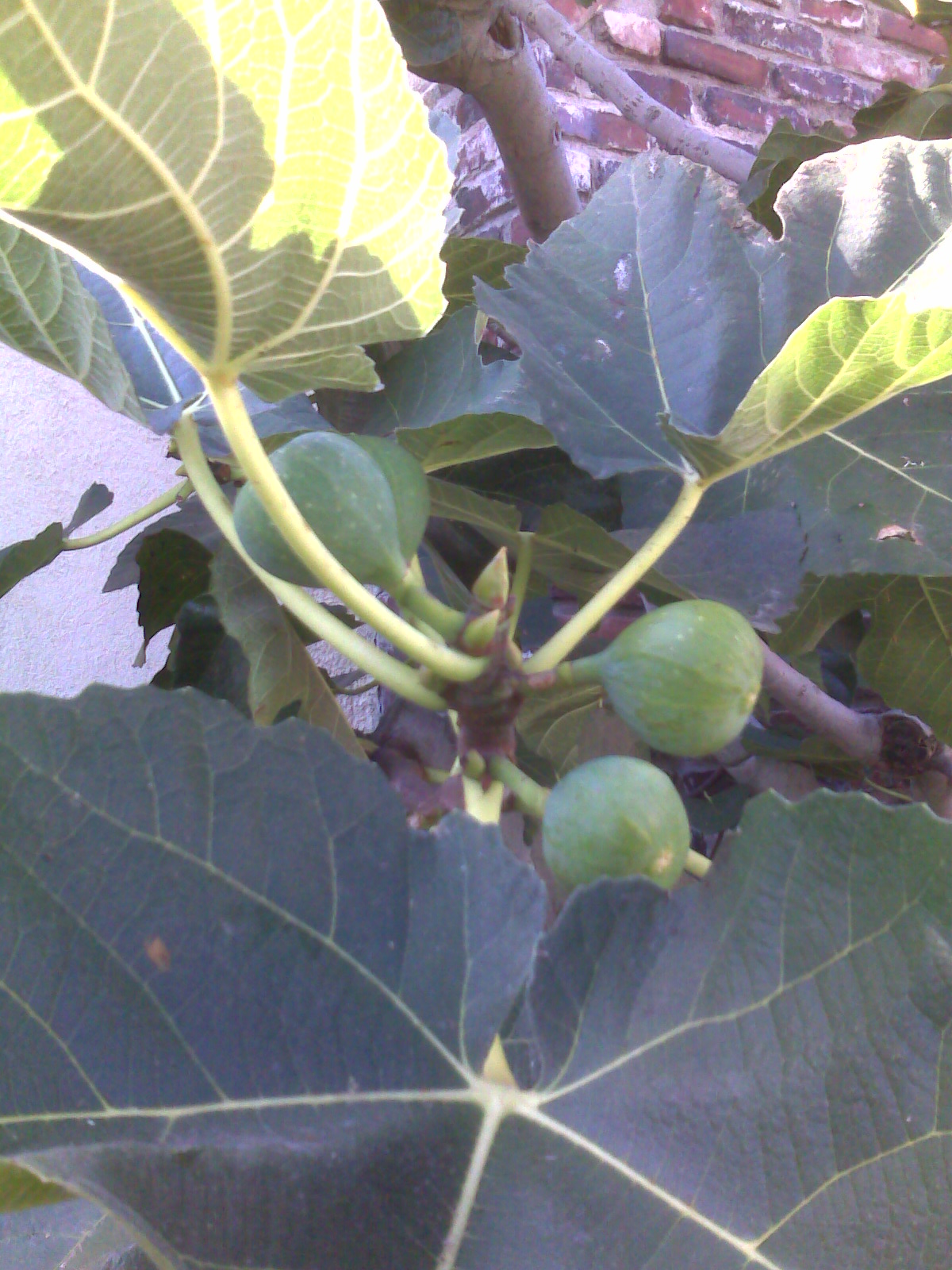 Common fig tree leaves and fruit, in Los Angeles, California, United States